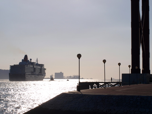 QE3 sails out of the port of Lisbon into the evening sunset around 17:15 on her maiden voyage 15 October 2010. Fair winds and good sailing till your next port of call.Mary Harrison Goudie